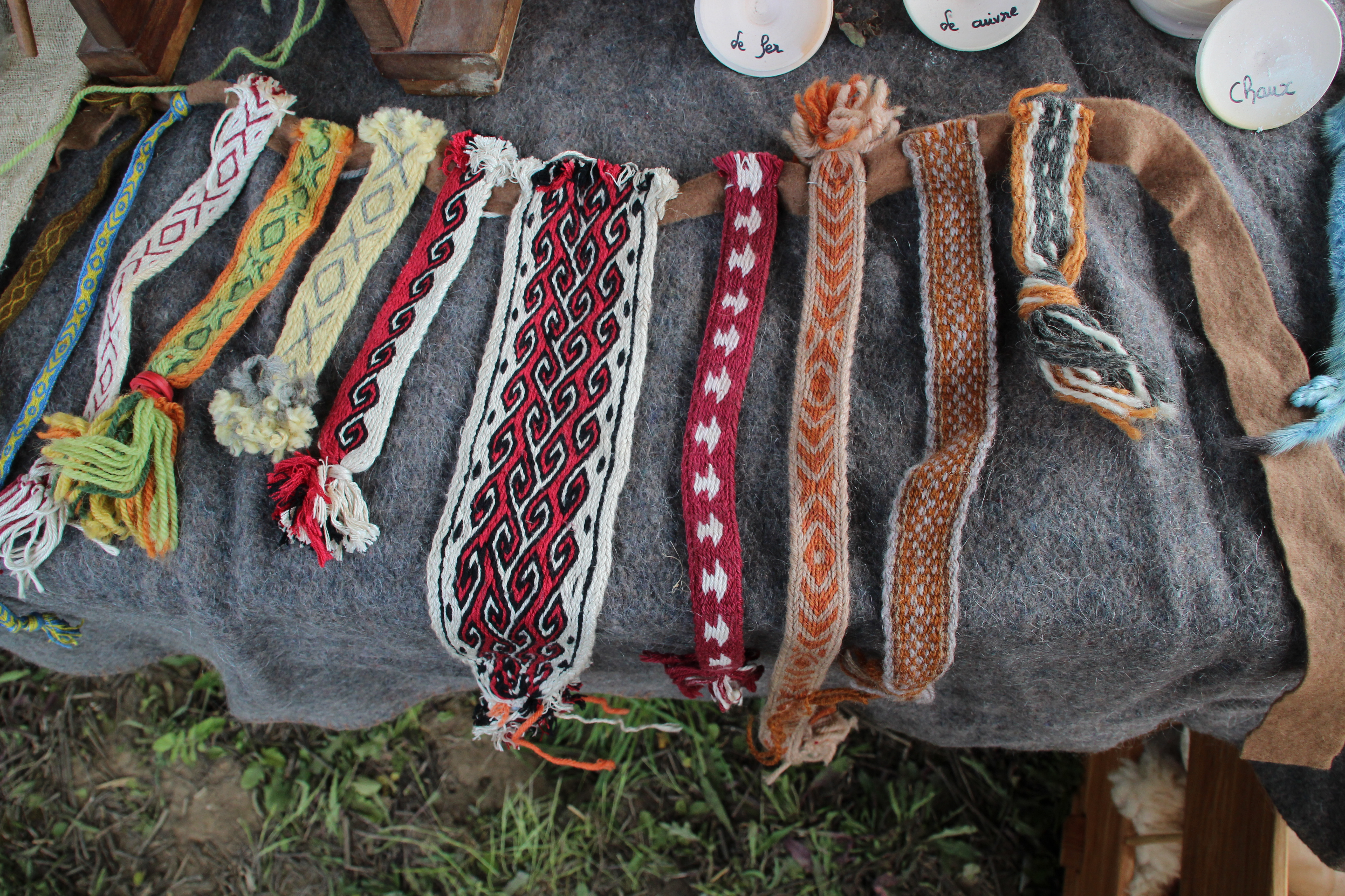 Ribbons obtained by tablet weaving at the archaeological site next to the industrial area SudEssor on the highway 20 at the entrance of Morigny-Champigny, France.